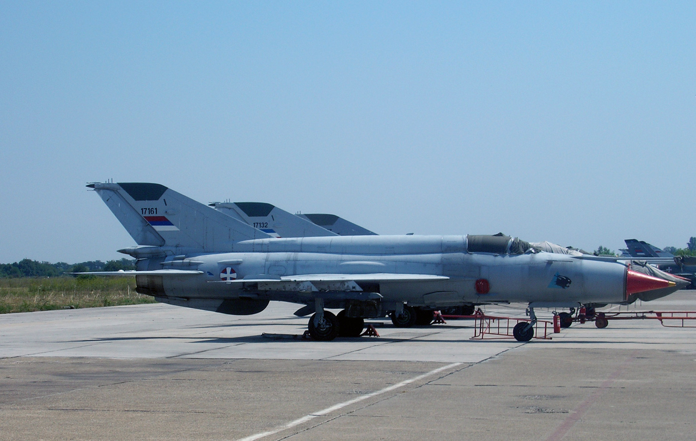 MiG-21 bis fighter aircraft No.17161 of 101. Fighter-Aviation Squadron, 204th Air Base of Serbian Air Force, Batajnica airbase during the Saint Elijah, the Aviation Day in Serbia. Ловачки авион МиГ-21 бис број 17161 из састава 101 ловачке авијациске ескадриле 204. Авио базе Ваздухопловства и ПВО Војске Србије Батајничком аеродрому за време прославе Дана Авијације на Светог Илију.